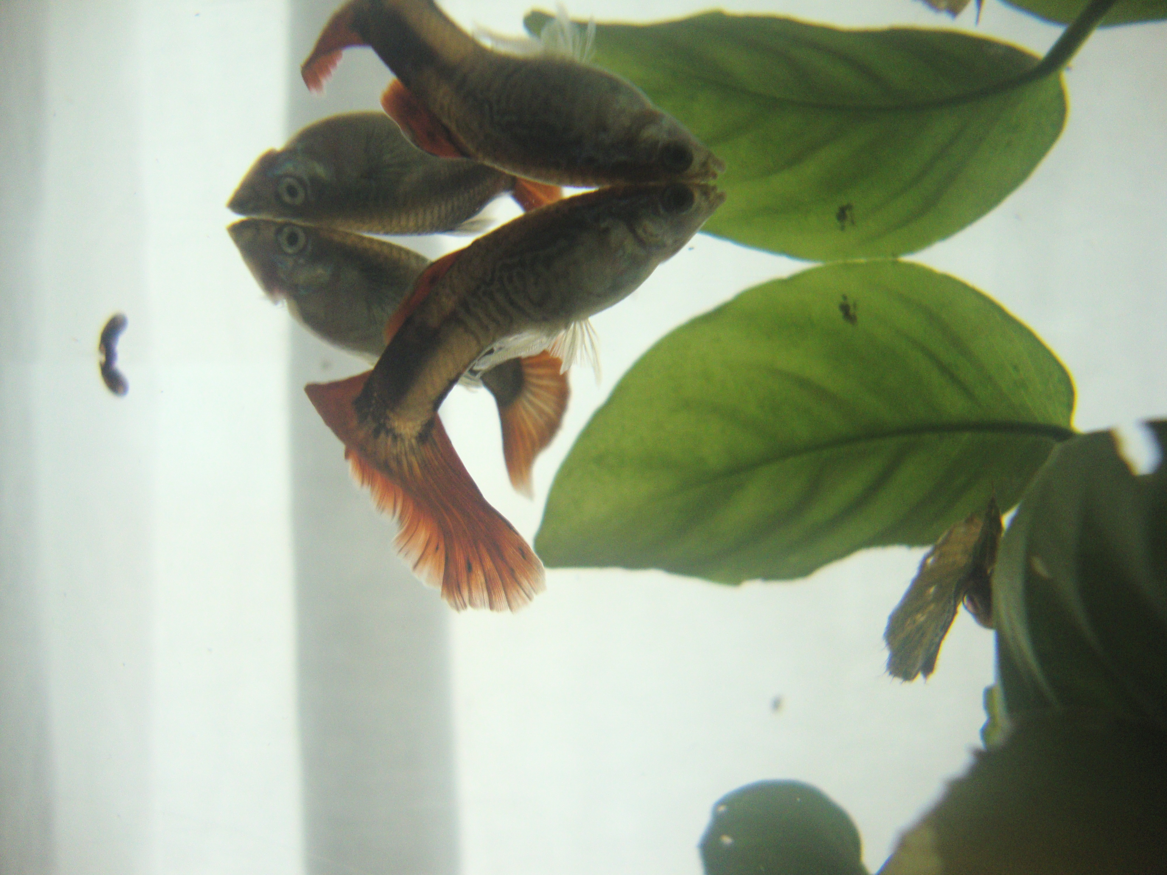 Pair of Guppys (Poecilia reticulata)